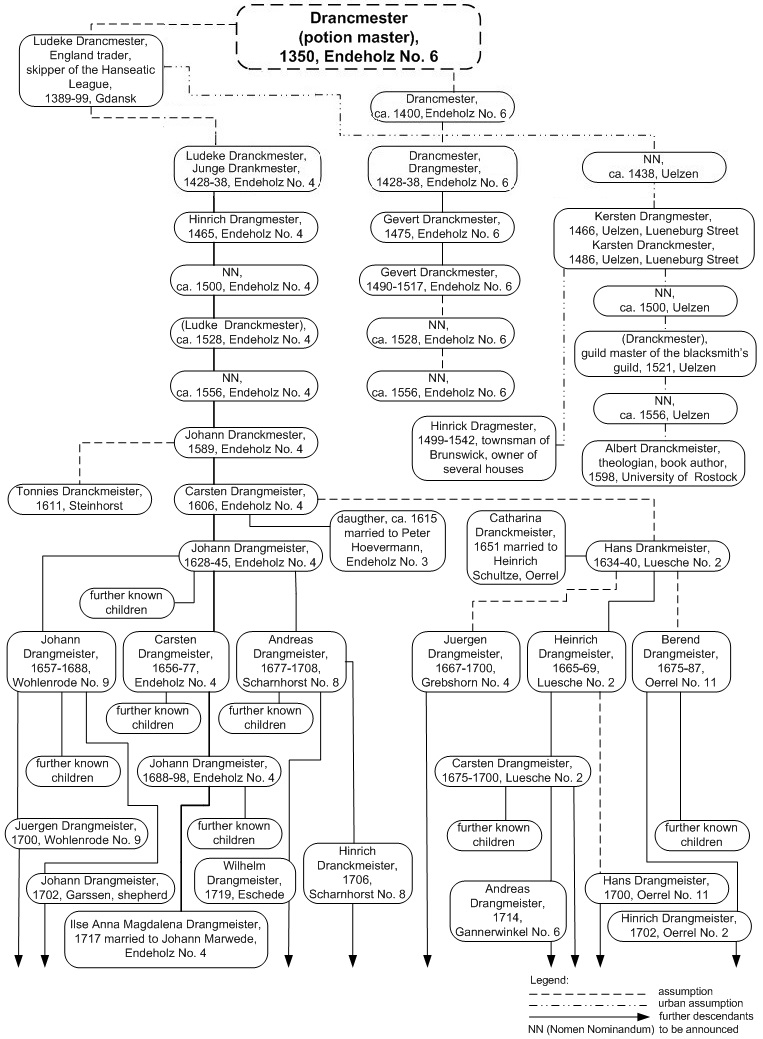 Family tree Drangmeister 1350-1700